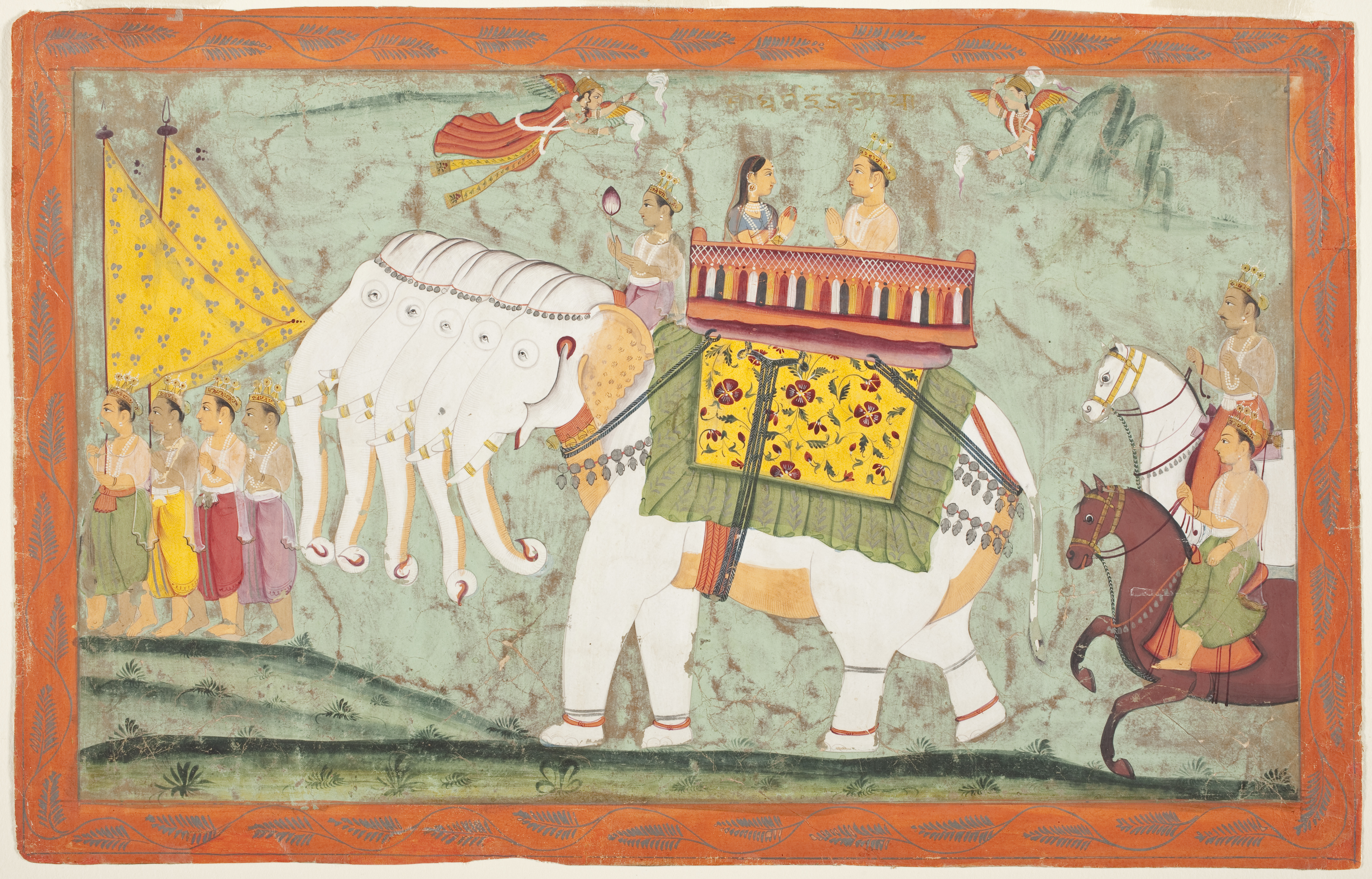 Indra and Sachi Riding the Divine Elephant Airavata. Folio from a Panchakalyanaka (Five Auspicious Events in the Life of Jina Rishabhanatha ([Adinatha]) Made in: India, Rajasthan, Amber